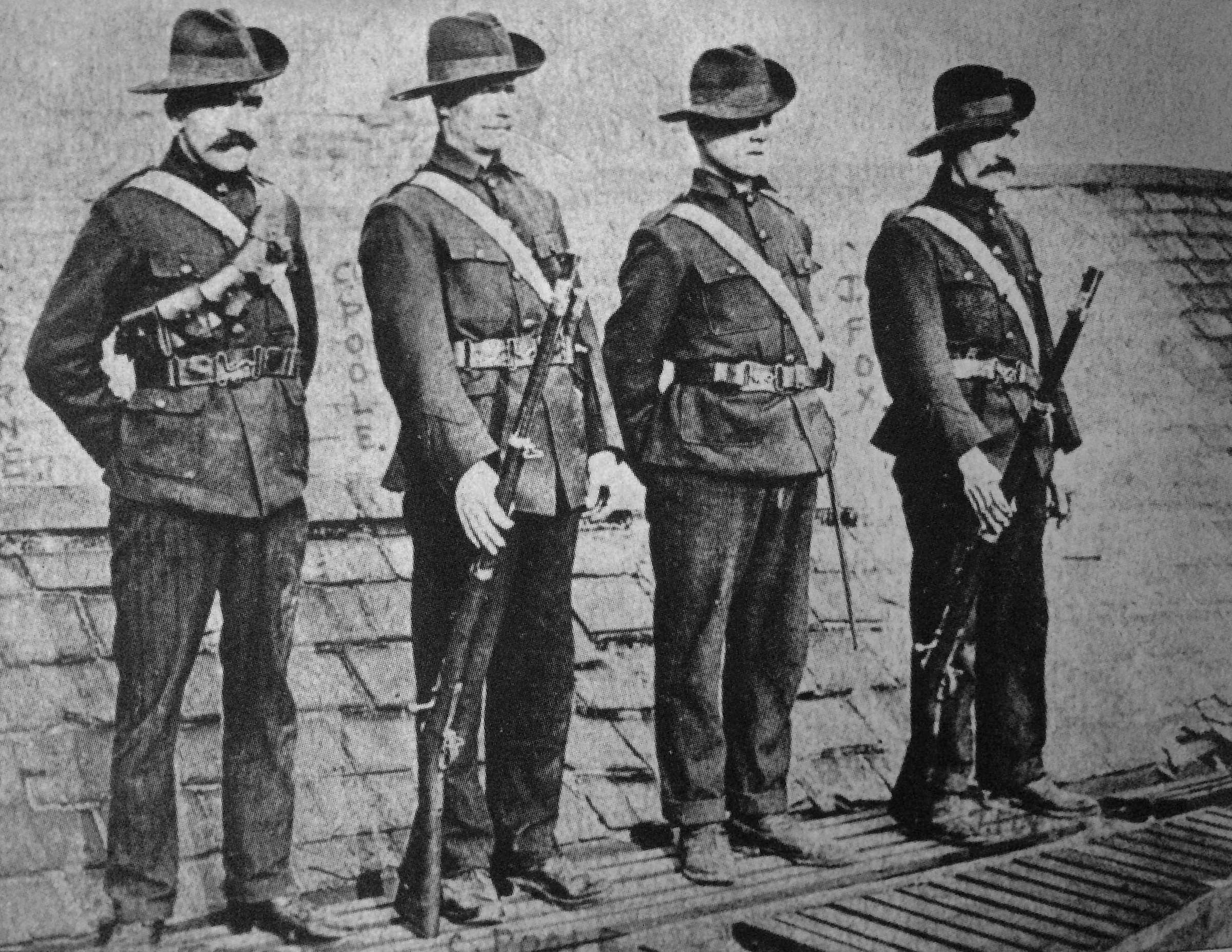 A photo from the Irish Labour History Society used for mass marketing in relation to the Irish Citizen Army. This instance of the photo is a scan of an original from the National Library of Ireland with the names of the soldiers atop the roof pencilled in beside them, including Christopher Poole second in from the left.